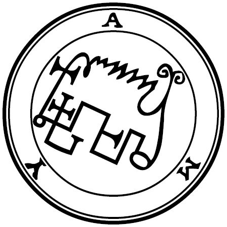 Amy seal, THE BOOK OF THE GOETIA OF SOLOMON THE KING (1904)